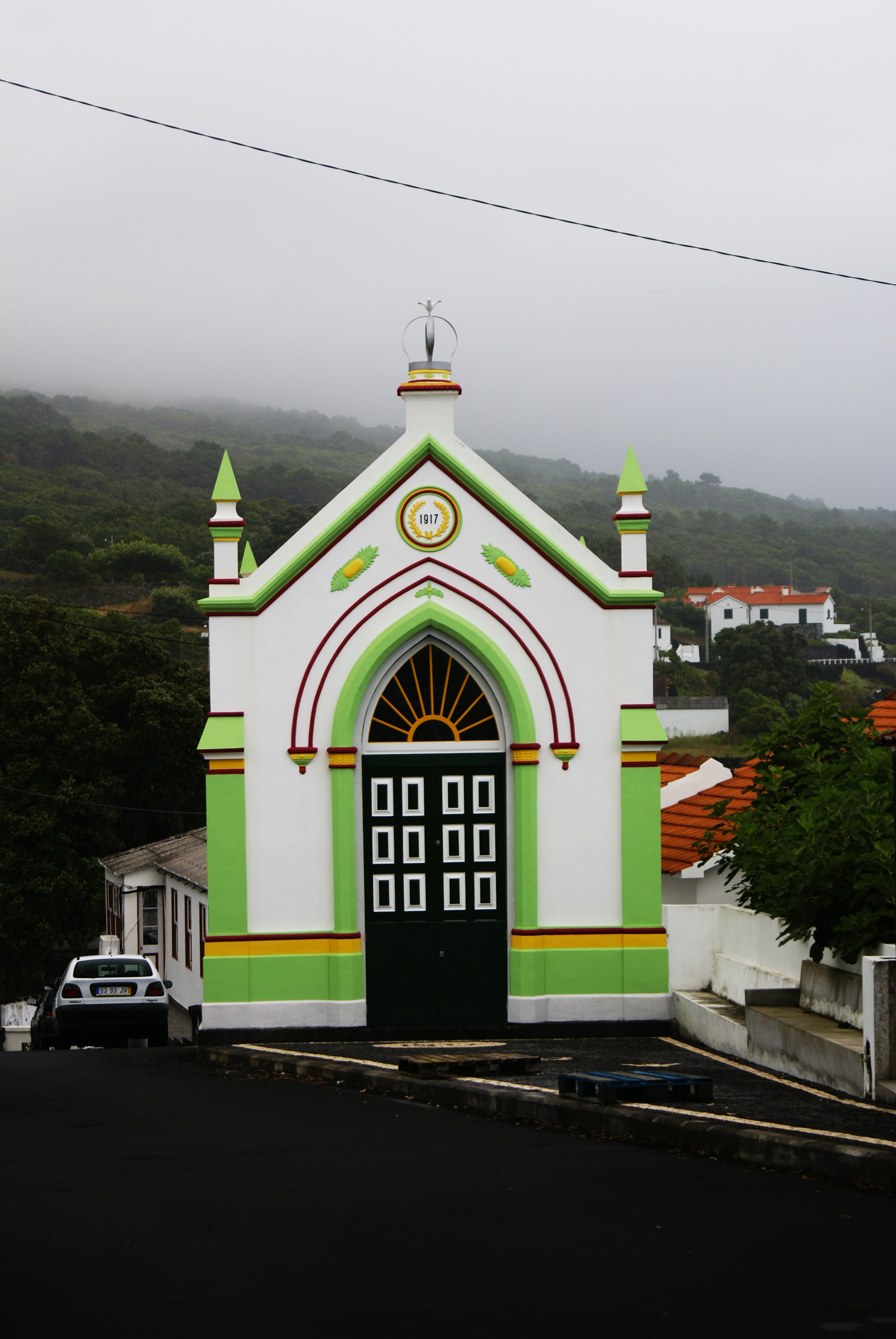 Império do Espírito Santo de São João, São João, concelho das Lajes do Pico, ilha do Pico, Açores, Portugal